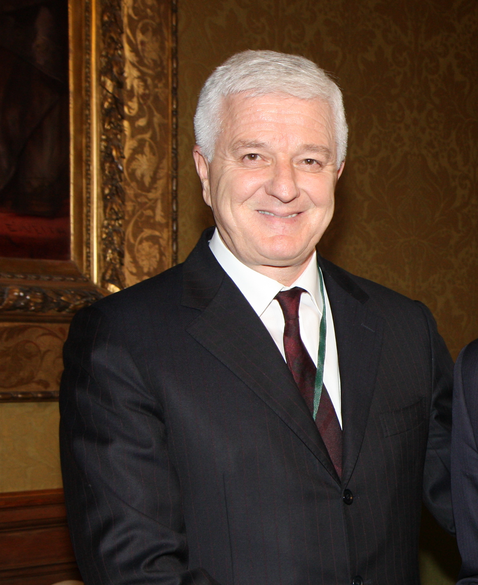 Minister for Europe David Lidington meeting Duško Marković, Montenegro Deputy Prime Minister for Political System, Foreign and Interior Policy in London, 11 November 2014.